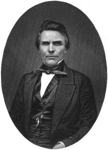 David Meade Woodson, an American jurist and legislator, from Livingston, John. Portraits of Eminent Americans Now Living: With Biographical And Historical Memoirs of Their Lives And Actions. New York: Cornish, Lamport & Co., 1853-54.